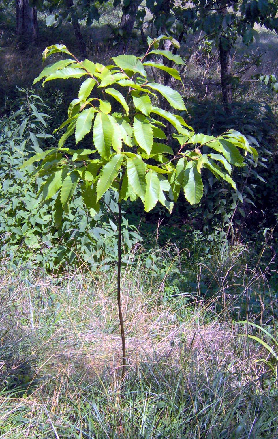 Photo taken July, 2005, at Strouds Run State Park, Ohio. Field trial of American chestnut seedling.